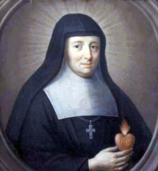 Jane Frances de Chantal, saint of the catholic church